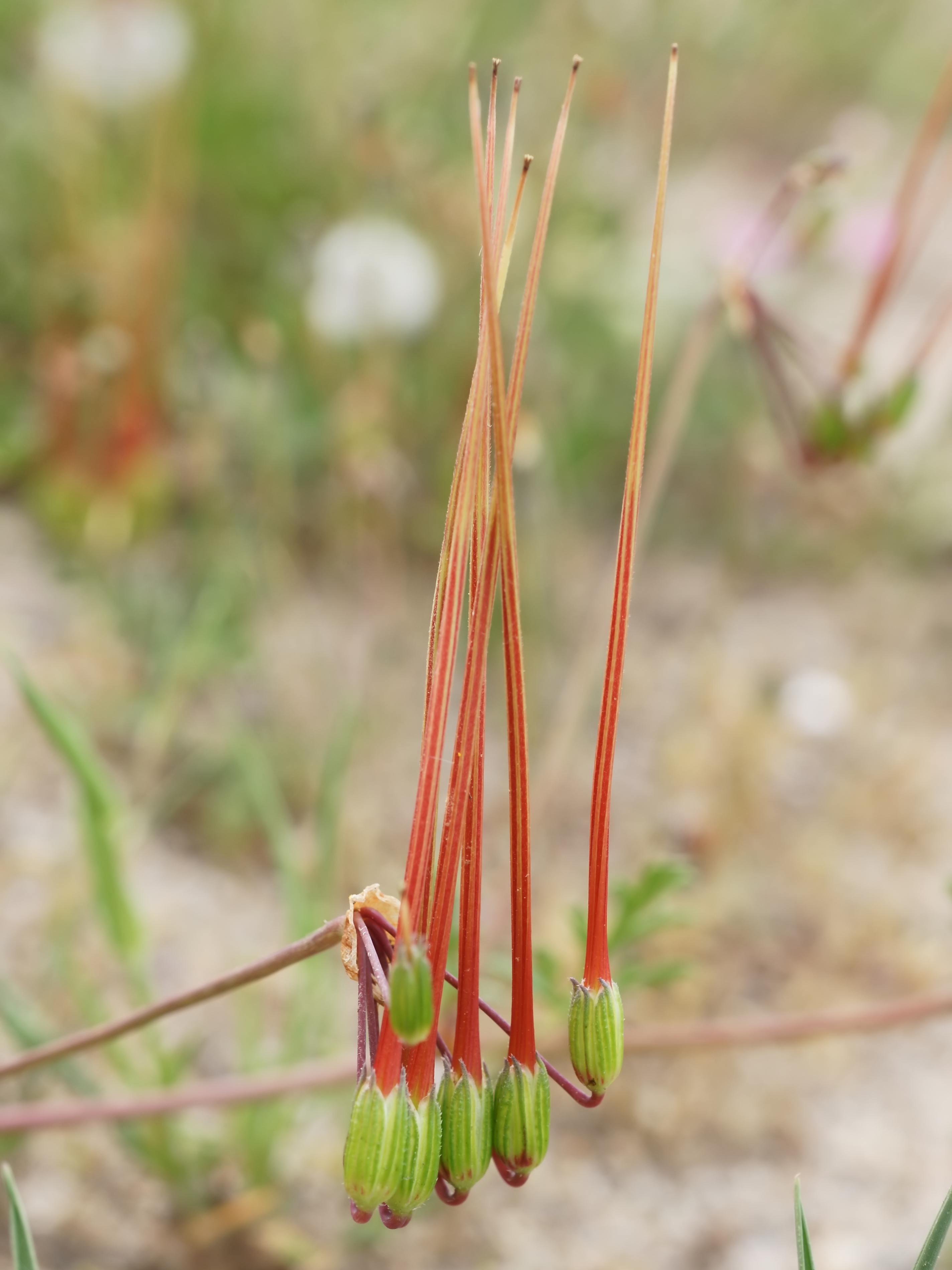 Long-beaked stork's bill at Torre Grande, Sardinia, Italy.